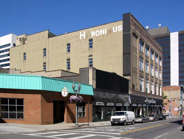 Former Heironimus flagship department store in Downtown Roanoke, Virginia, USA. Store has been closed since January 1996, and the Heironimus chain has been defunct since 2005.